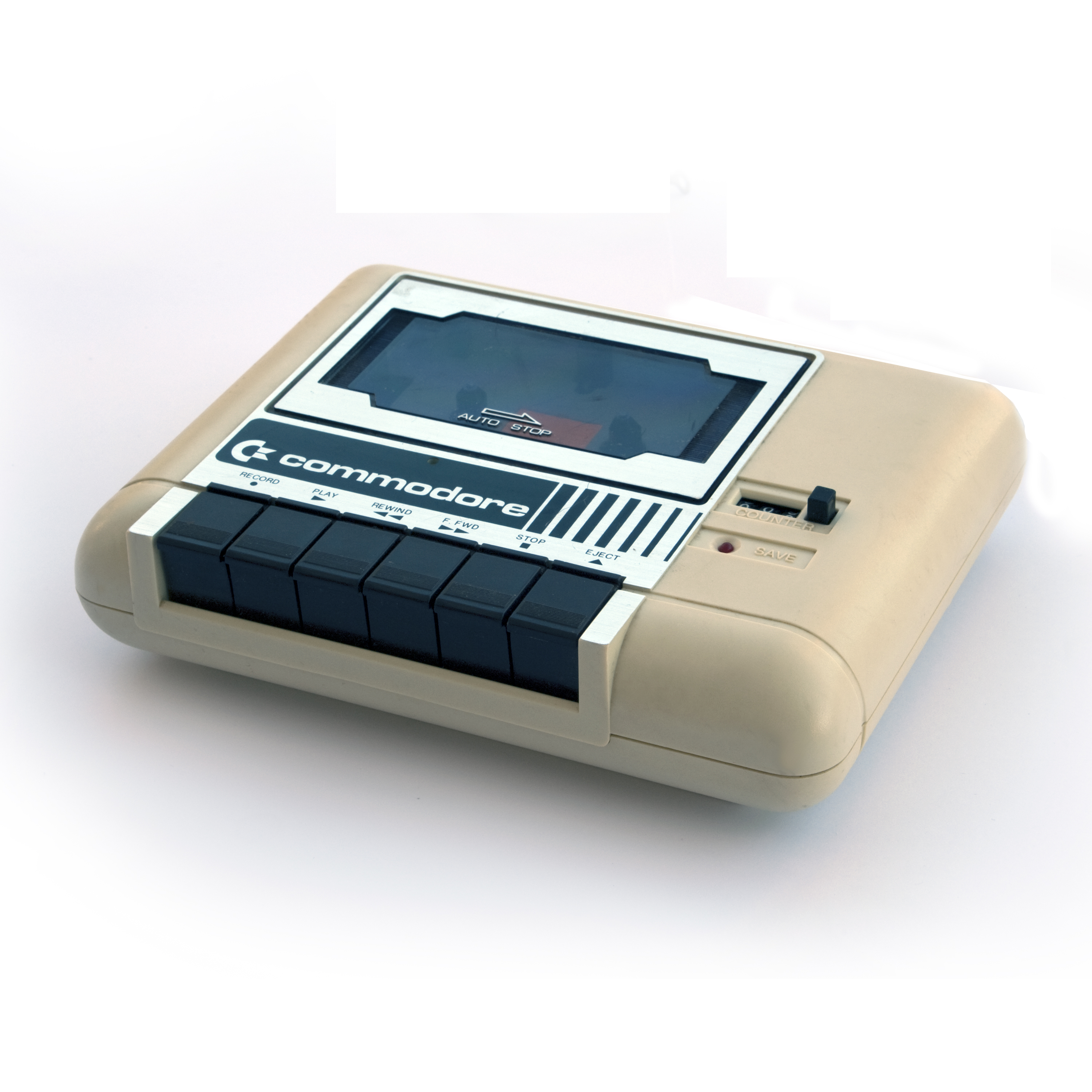 A Commodore 1530 Datasette tape drive, as used with the Commodore 64.